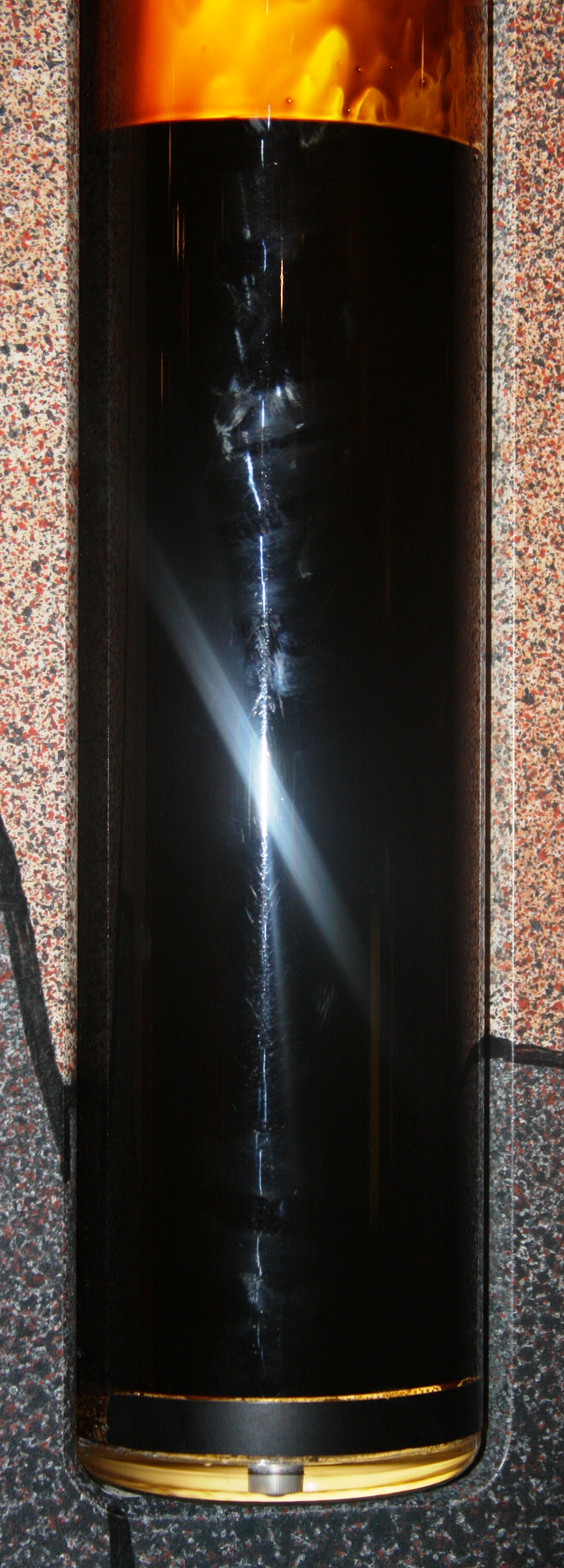 North Sea Oil from the Norwegian continental shelf. This oil is from the Statfjord field. API value = 35.2. Viscosity at 50 degrees Celsius = 3.2 mPas.